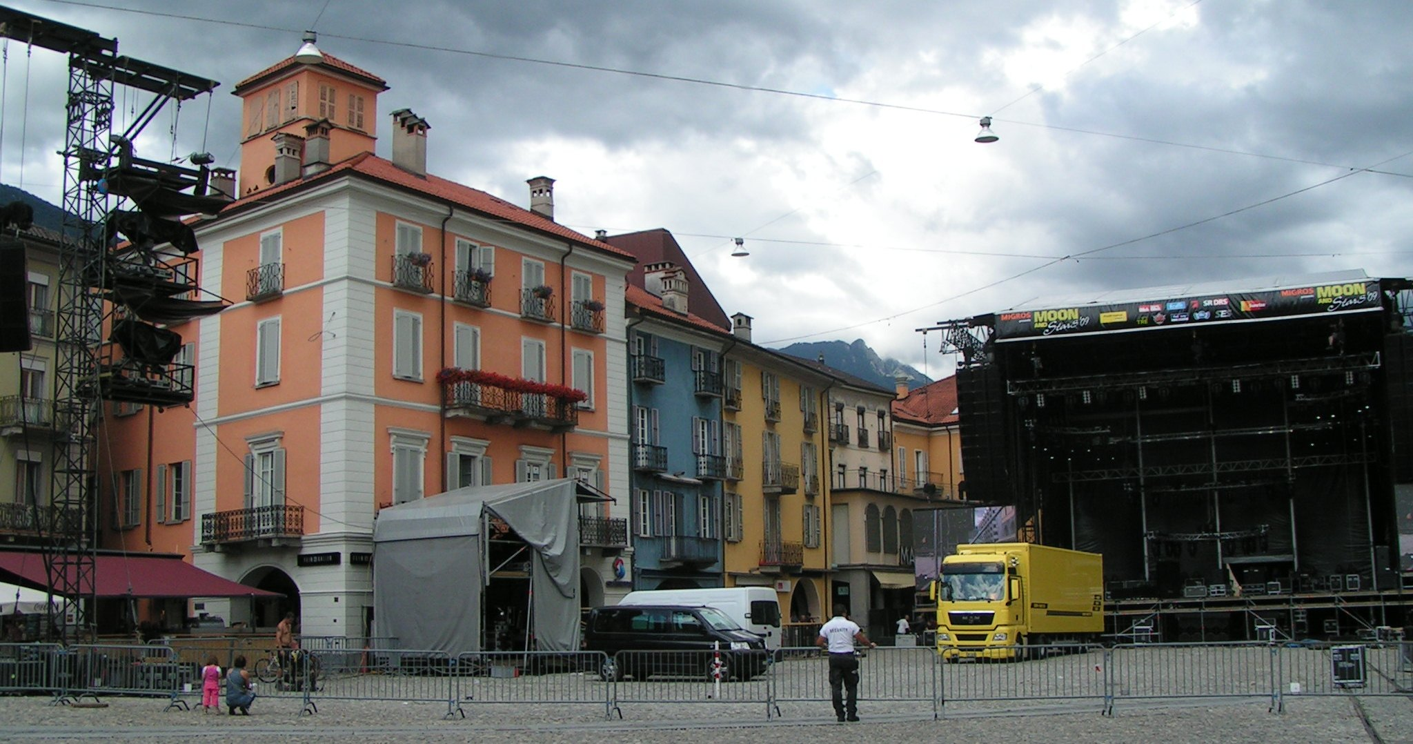 Festival Preparations at Piazza Grande in Locarno